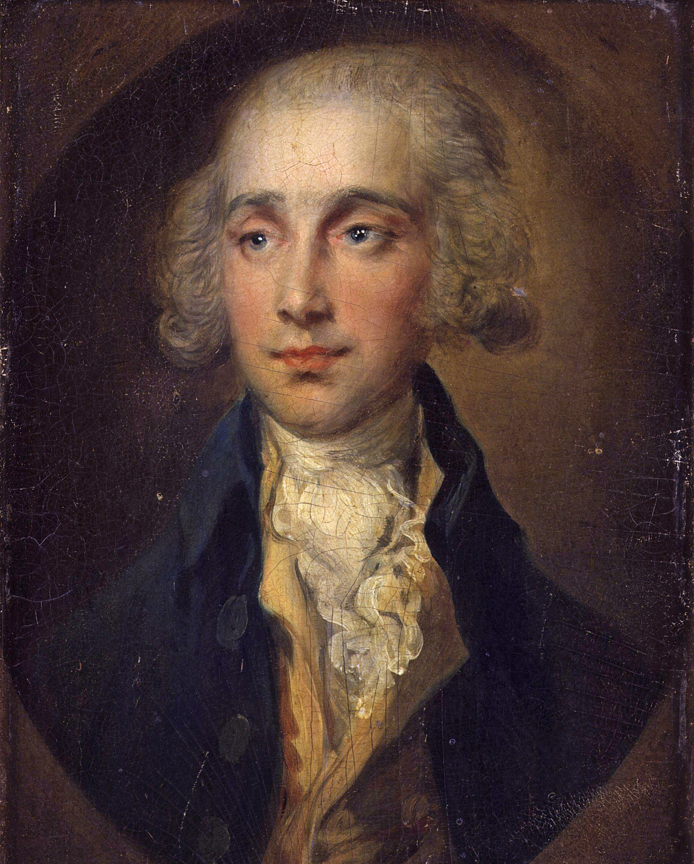 Portrait of James Maitland, 8th Earl of Lauderdale All images in this batch have been confirmed as author died before 1939 according to the official death date listed by the NPG.